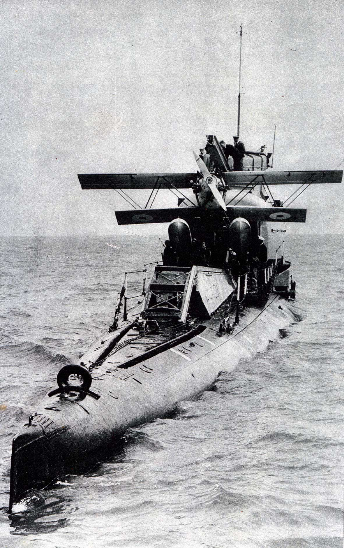 HMS M2 and her Sea Plane.